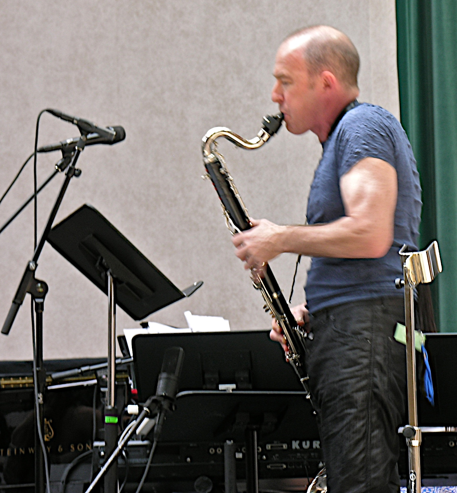 At the Bang on a Can Marathon 2011.